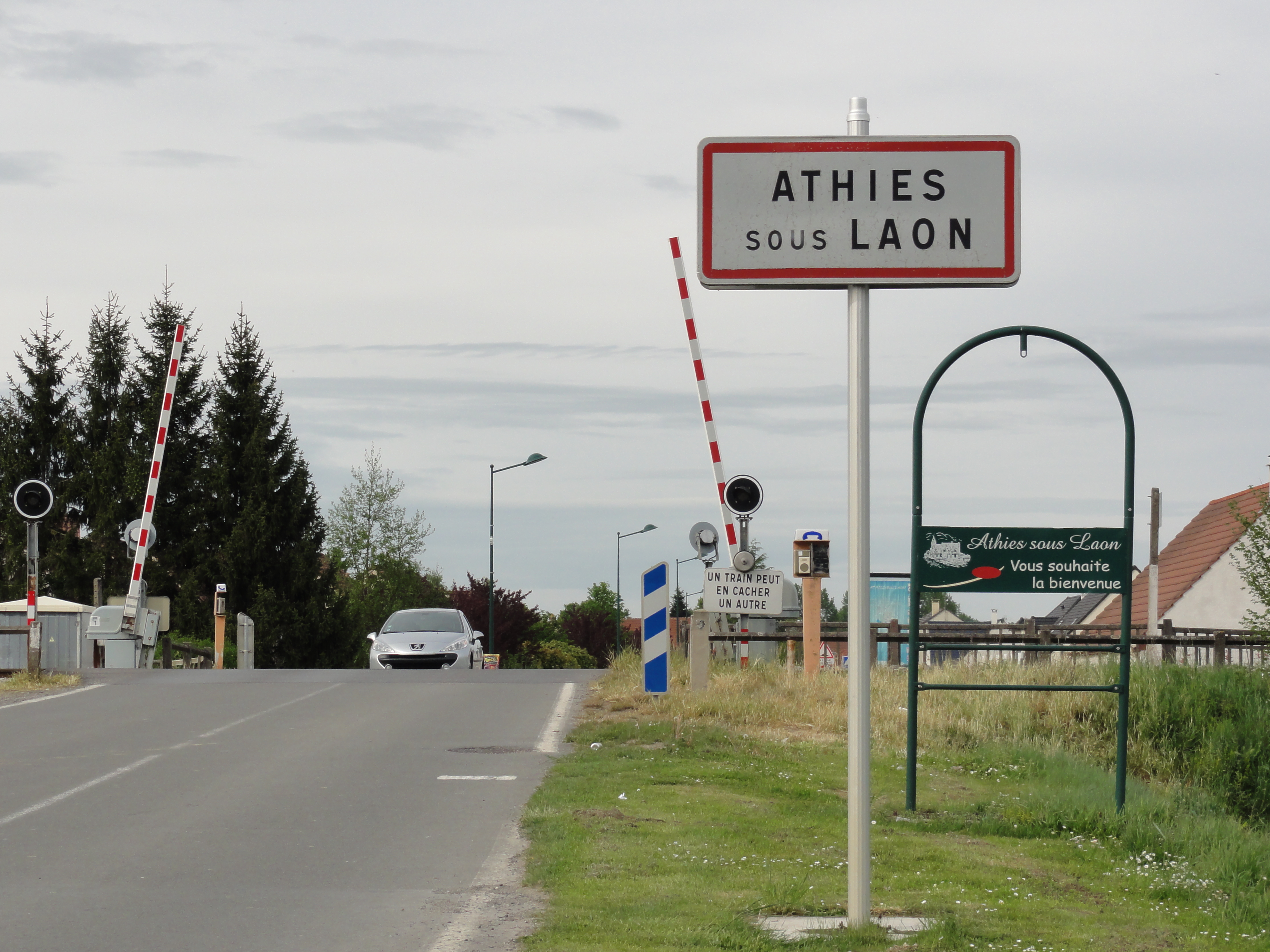 Athies-sous-Laon (Aisne) city limit sign